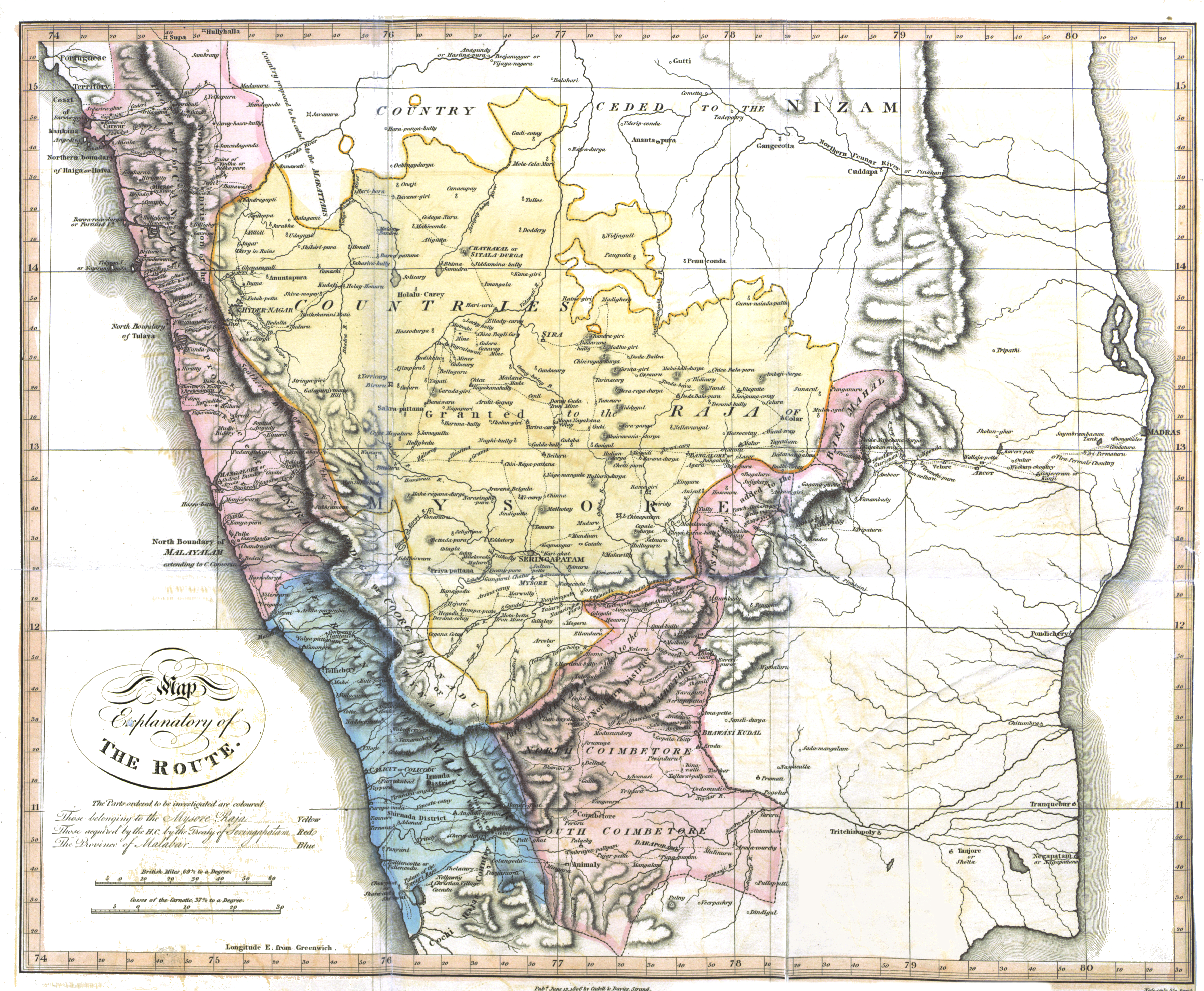 Map of southern India showing the route taken by Francis Buchanan Hamilton